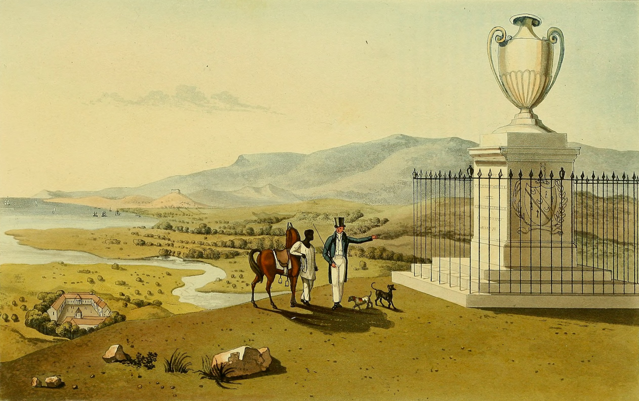 Monument of the late Thos. Hibbert, Esq., at Agualta Vale, St. Mary's.